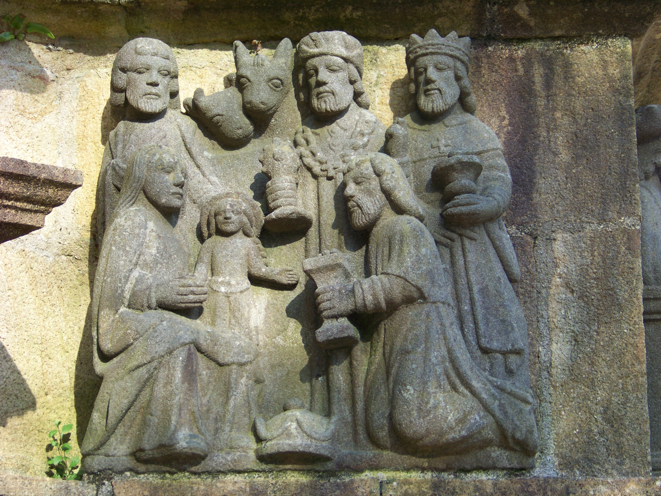 Adoration of the Magi, The calvary, Plougastell Daoulaz, Finistere, Brittany .